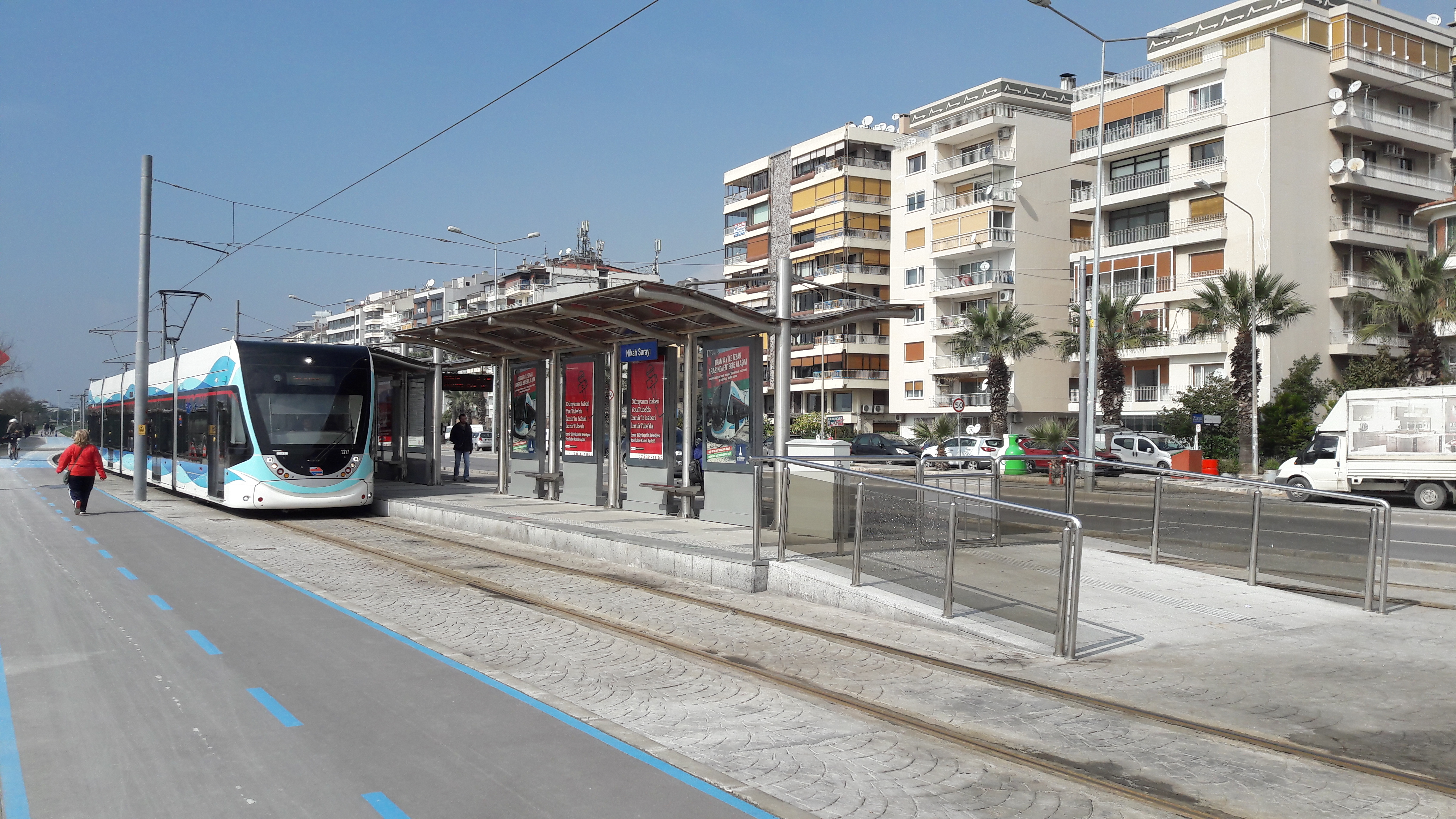 Nikah Sarayi tram station.